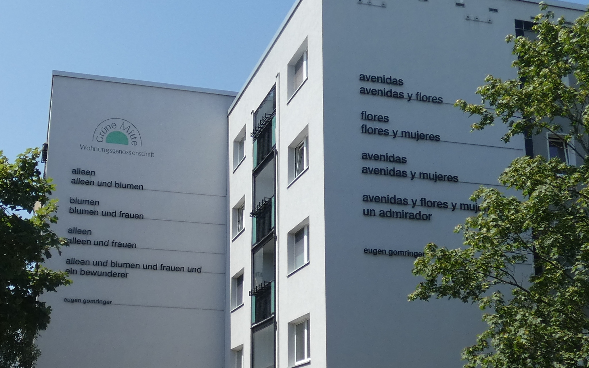 poem "alleen alleen und blumen blumen blumen und frauen alleen alleen und frauen alleen und blumen und frauen und ein bewunderer" by Eugen Gomringer at a wall of a house "Grüne Mitte Wohnungsgenossenschaft"